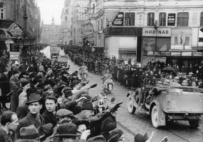 German Nazi troops entering Brno in the beginning of military occupation of the Czechoslovakia in March 1939.